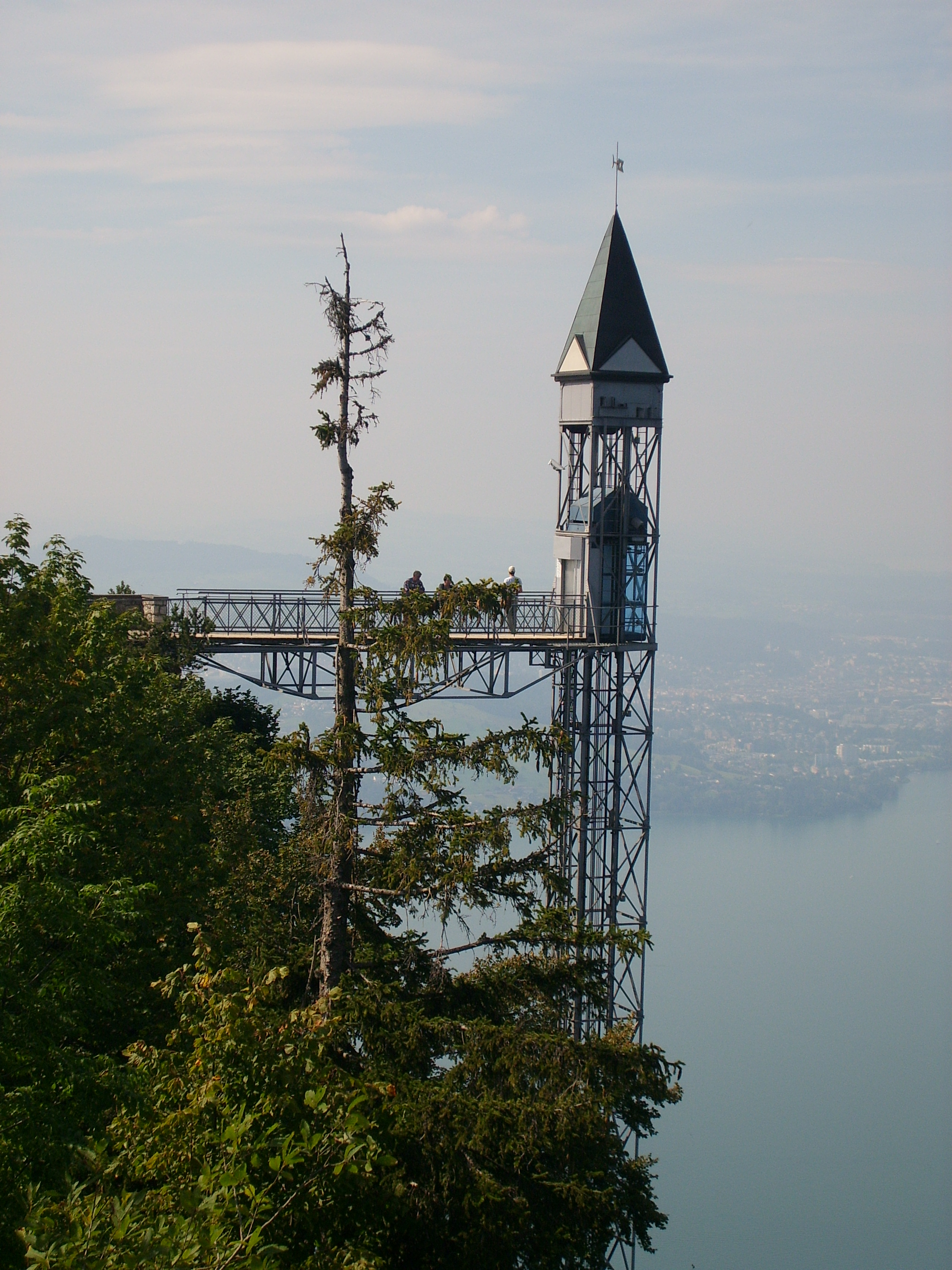 Hammetschwand Elevator. In the background on the right side you can see a part of Lucerne City.